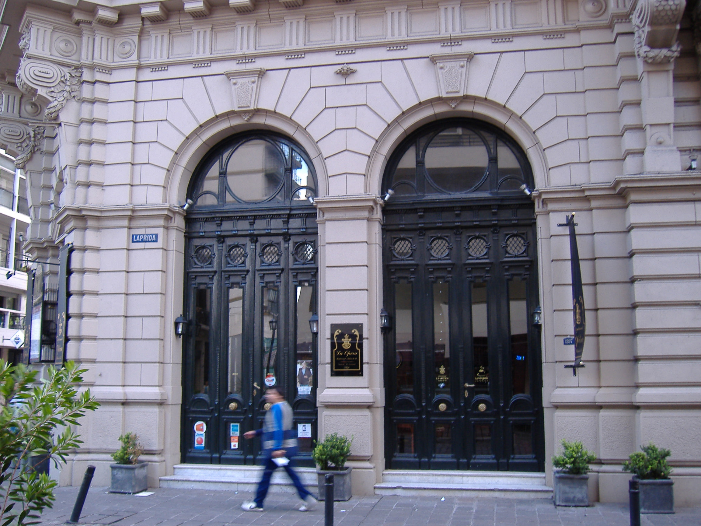 El Círculo Theater (Teatro El Círculo), an artistic landmark of Rosario, Argentina. The main entrance is at the corner of Laprida St. and Mendoza St., in the city center; these side doors are on Laprida St.